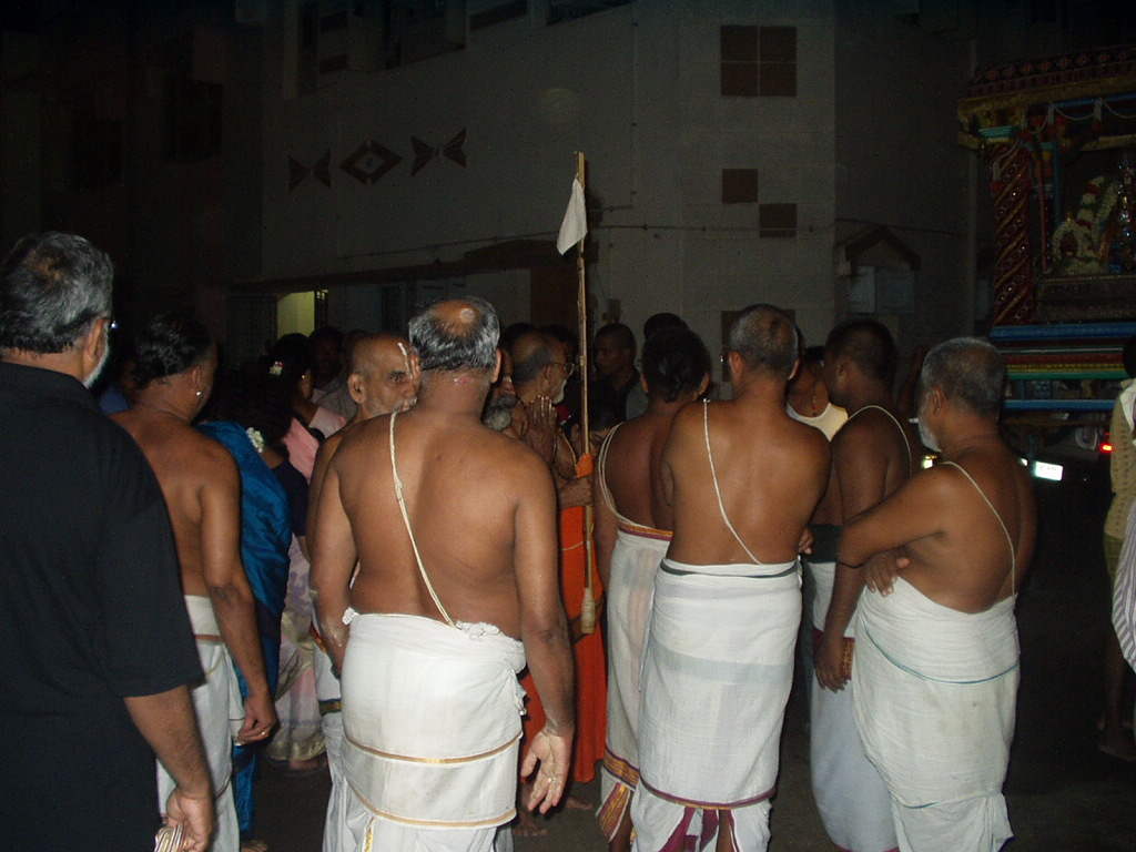 Brahmins wearing sacred threads and veshtis.